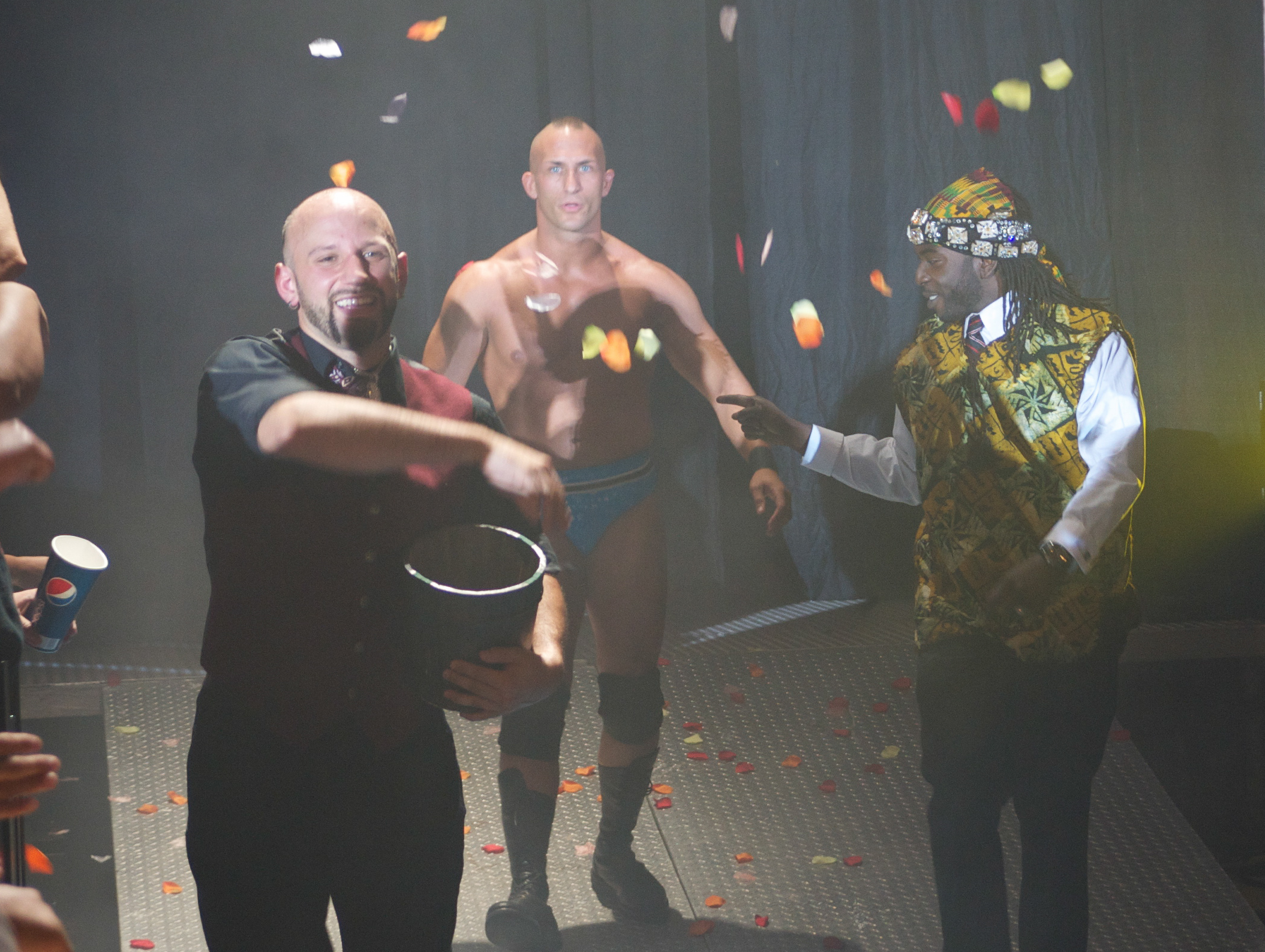 The Embassy (from left to right): Ernie Osiris, Tommaso Ciampa, and Prince Nana at a Ring of Honor show in 2011.